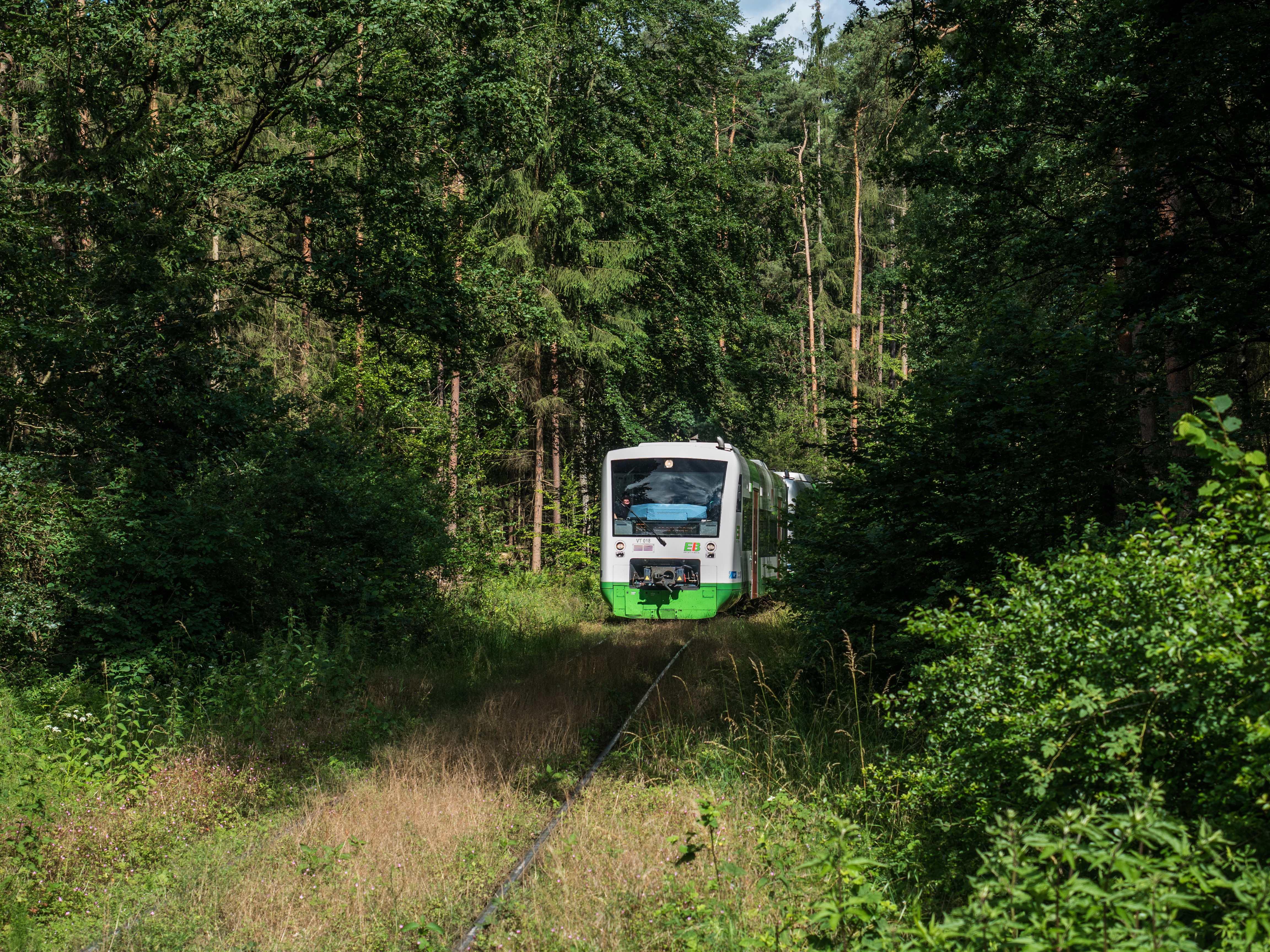 Special trip on the route of the Oberen Steigerwaldbahn on the occasion of Schlüsselfelder railway station party